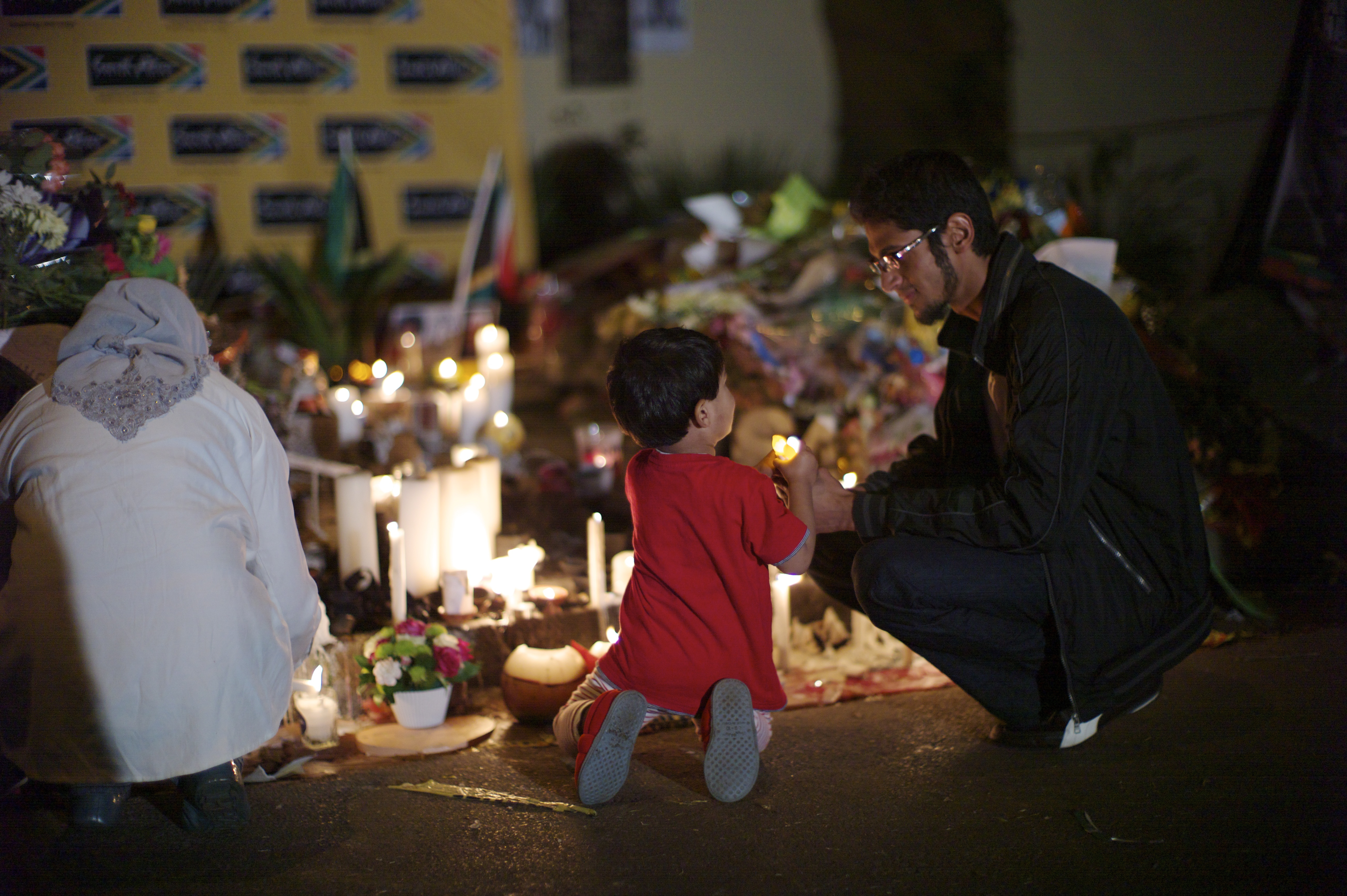 Kid lighting a candle at memorial outside Mandela Home